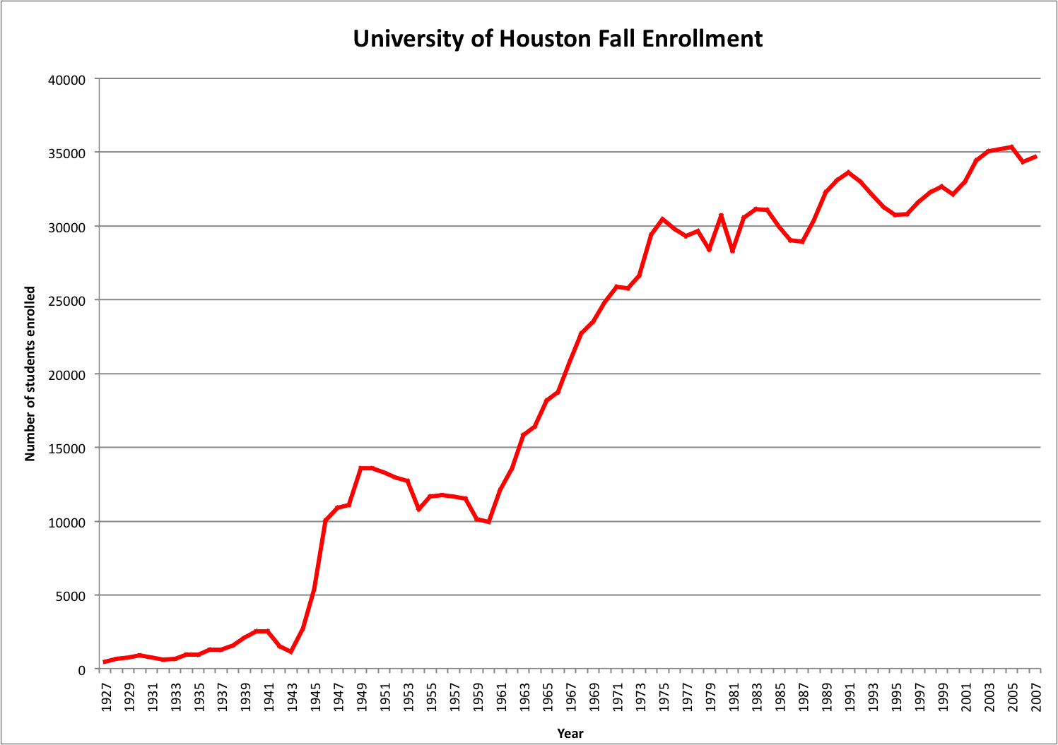 A chart depicting the University of Houston's Fall enrollment for each year of the university's existence. Source for years 1927-1933: "In Time: An Anecdotal History of the First Fifty Years of the University of Houston" (1977) by Patrick J. Nicholson. Source for years 1934-1999: 1999 Statistical Handbook, for years 2000-2003: 2003 Statistical Handbook, for years 2004-2006: 2006 Statistical Handbook, and for year 2007: 2007 Facts at a Glance. University of Houston Office of Institutional Research. Retrieved 16 February 2008.